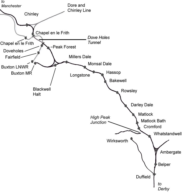 Sketch map of the Manchester, Buxton, Matlock and Midlands Junction Railway from Ambergate to Chinley.